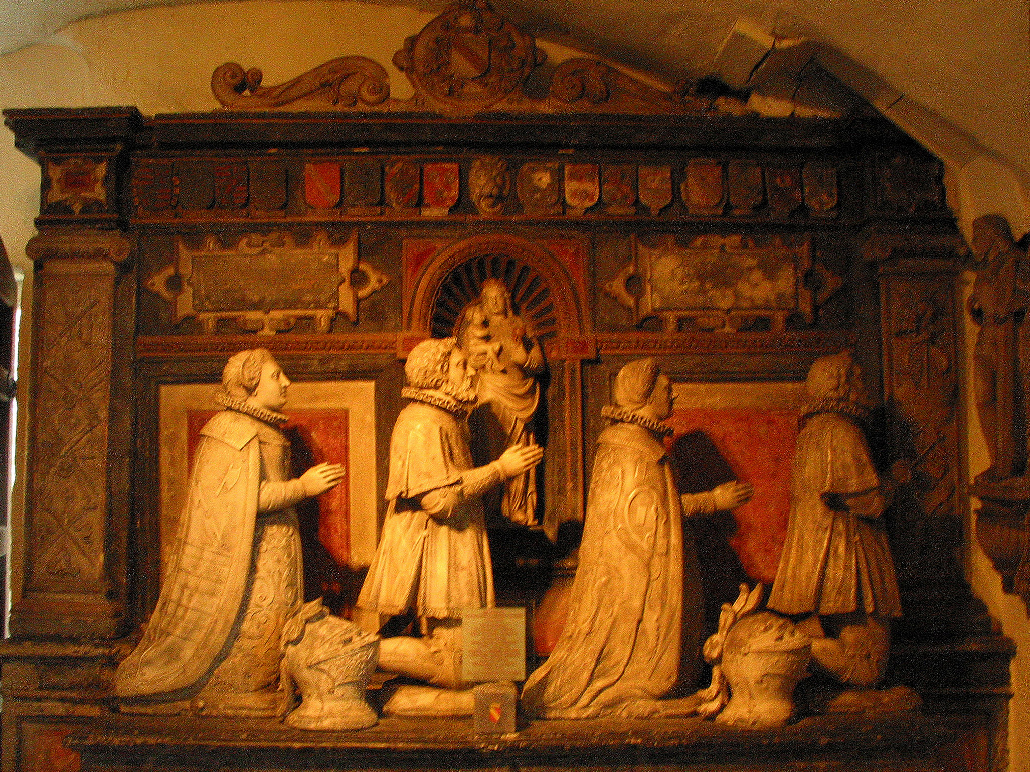 The Rennaissance mausoleum of Maximilien Hennin-Liétard I, Charlotte Werchin Pierre II Hennin-Lietard and Marguerite de Croÿ carved by Jacques du Broeucq (XVIth century) and placed in the mortuary chapel of the lords of Boussu - Boussu (Belgium).